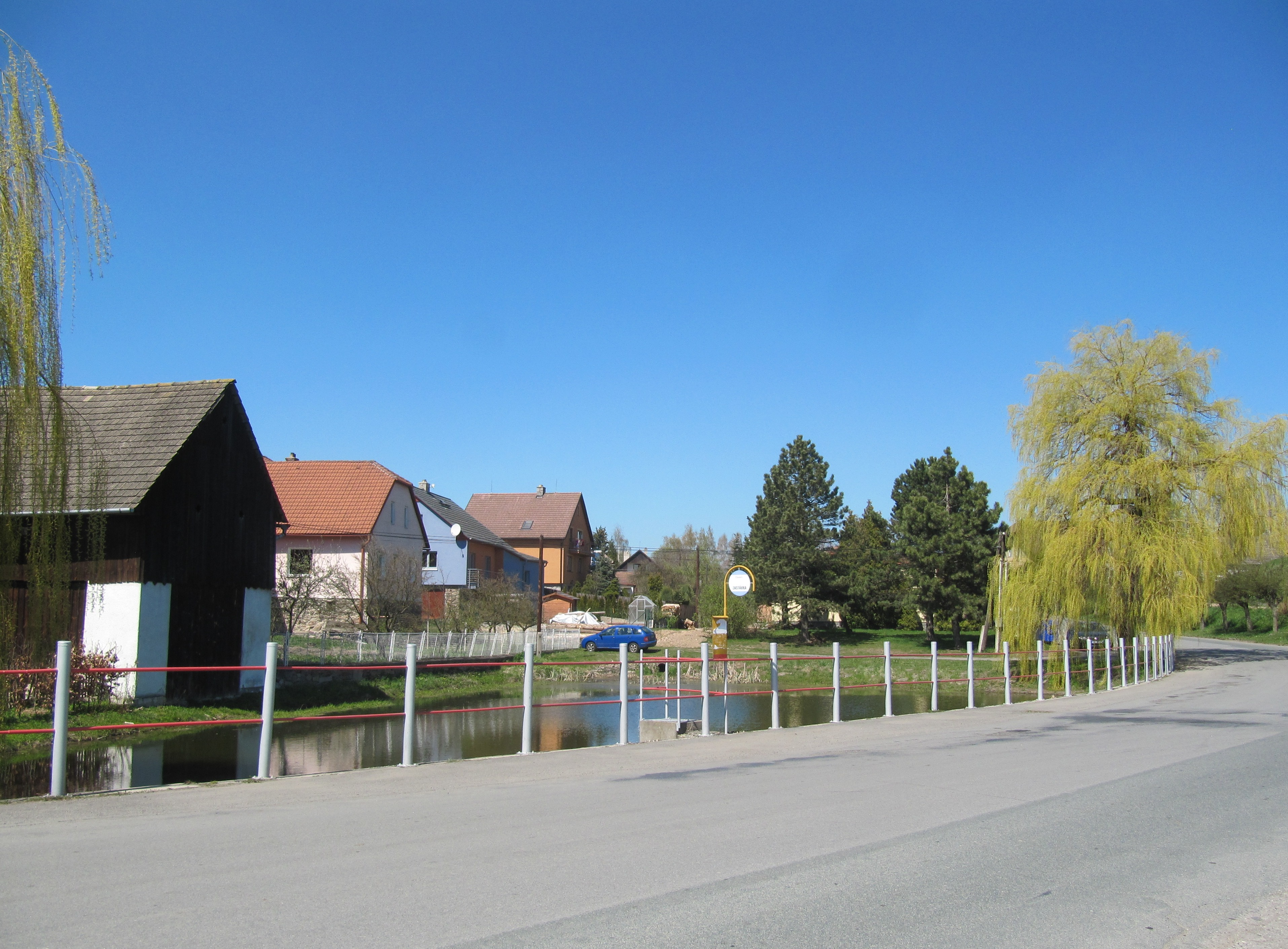 Ždánice, Žďár nad Sázavou District, Czechia.